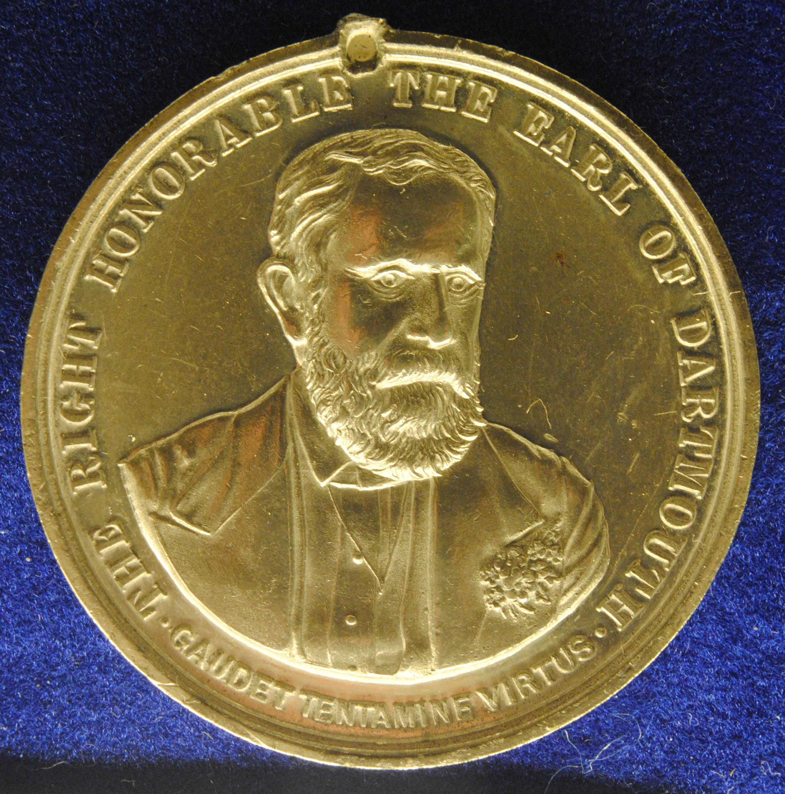 Medal "To commemorate the opening on June 3rd 1878 of Dartmouth Park - The gift of the Earl of Dartmouth to the inhabitants of West Bromwich", in Wednesbury Museum and Art Gallery, Wednesbury, England.